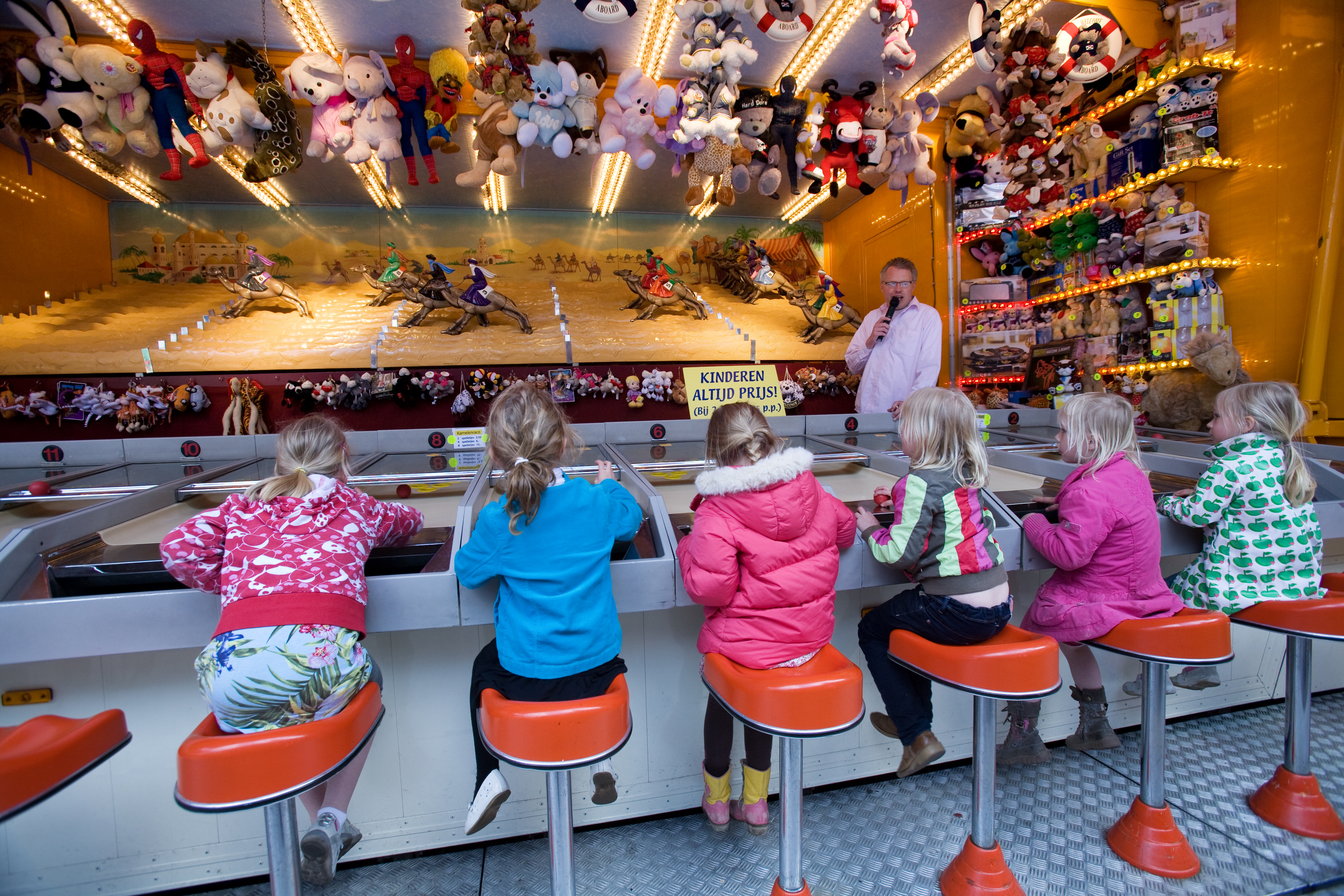 Fun Fair at the Dam, Amsterdam, The Netherlands